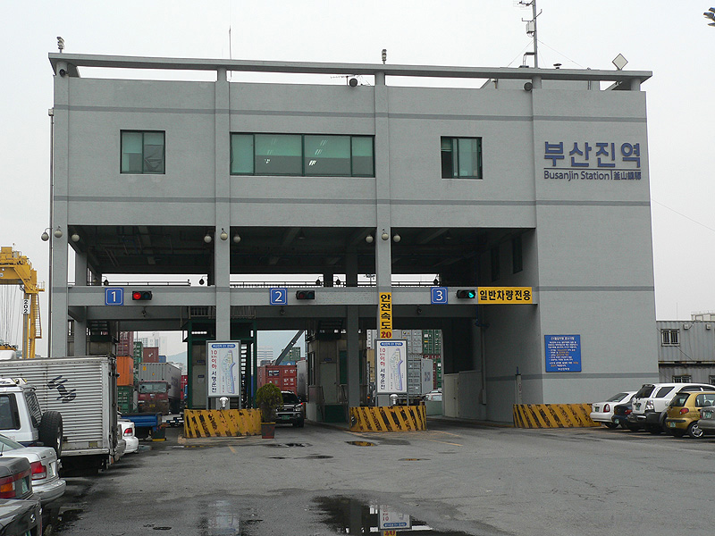 KORAIL Busanjin Station New Building